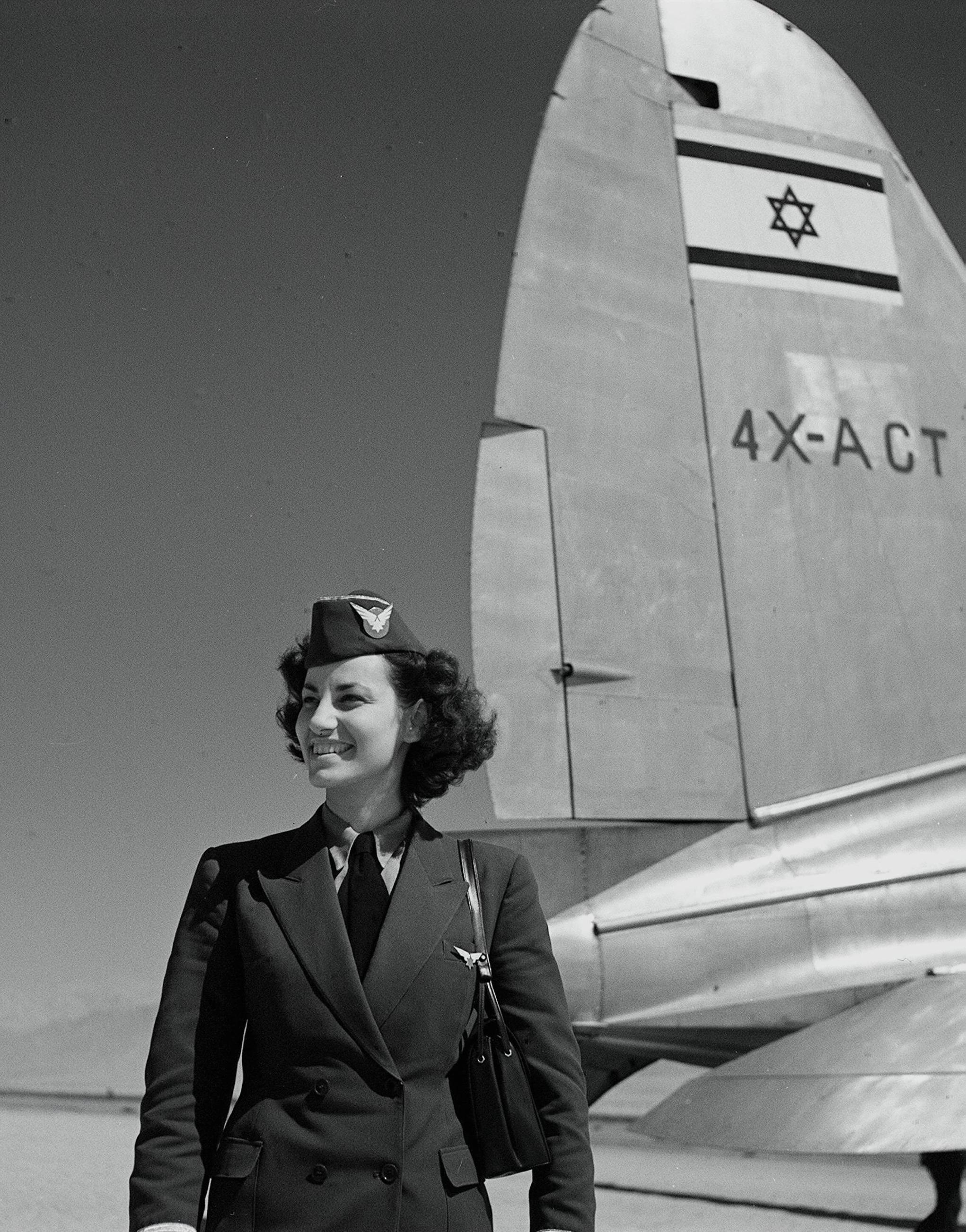 El Al stewardess by 4X-ACT "Galilee"